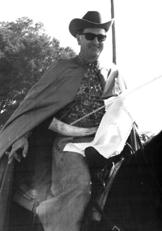 Elton Richard, captain of the Church Point Mardi Gras (circa 1970s)